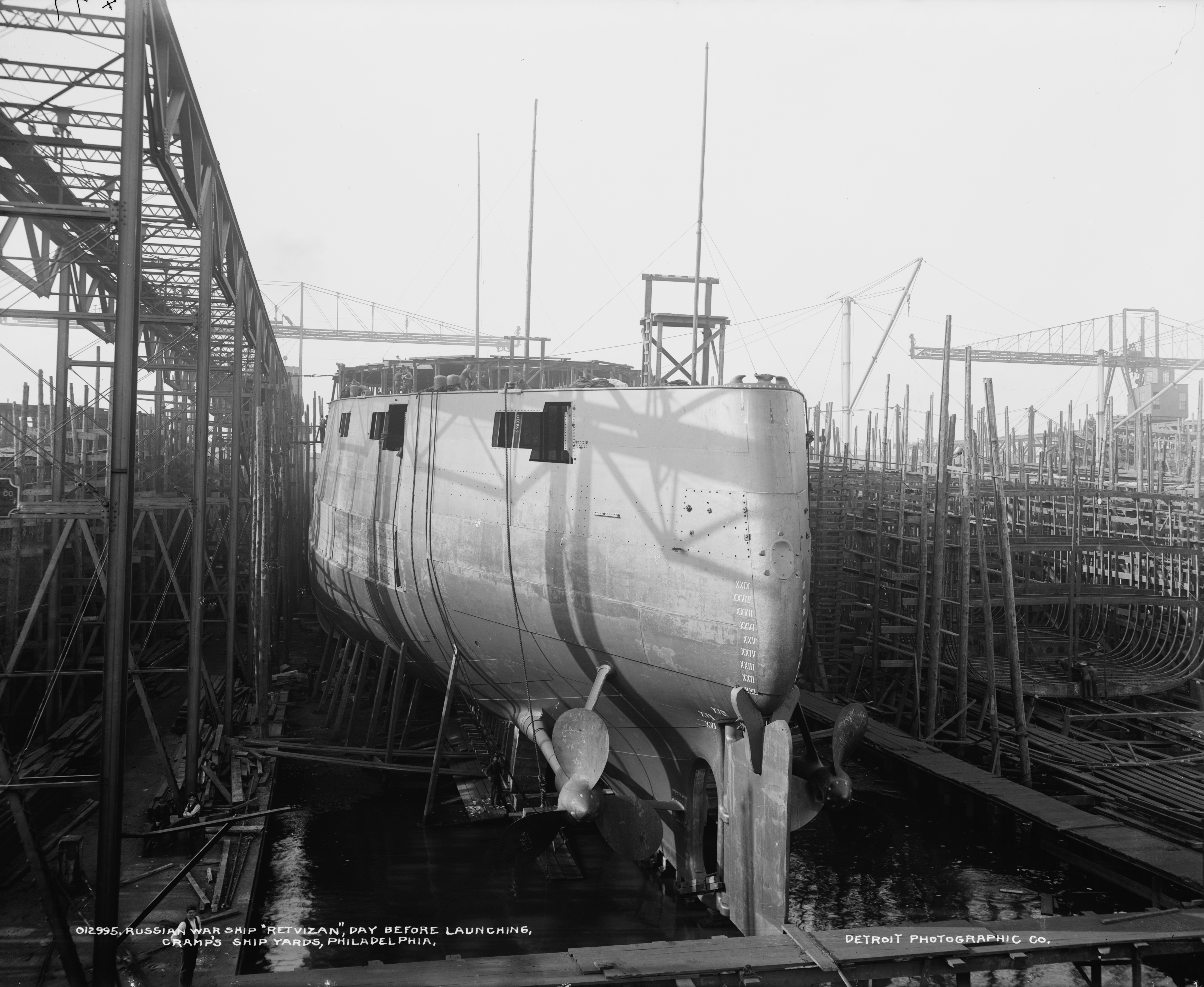 Russian battleship Retvizan day before launching, Cramp's ship yards, Philadelphia